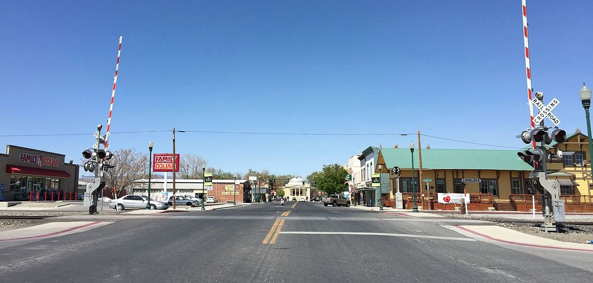 Main Street in Lovelock NV, 18 April 2015, showing the original Southern Pacific depot, early 20th century commercial buildings and the 1920 Pershing County circular courthouse